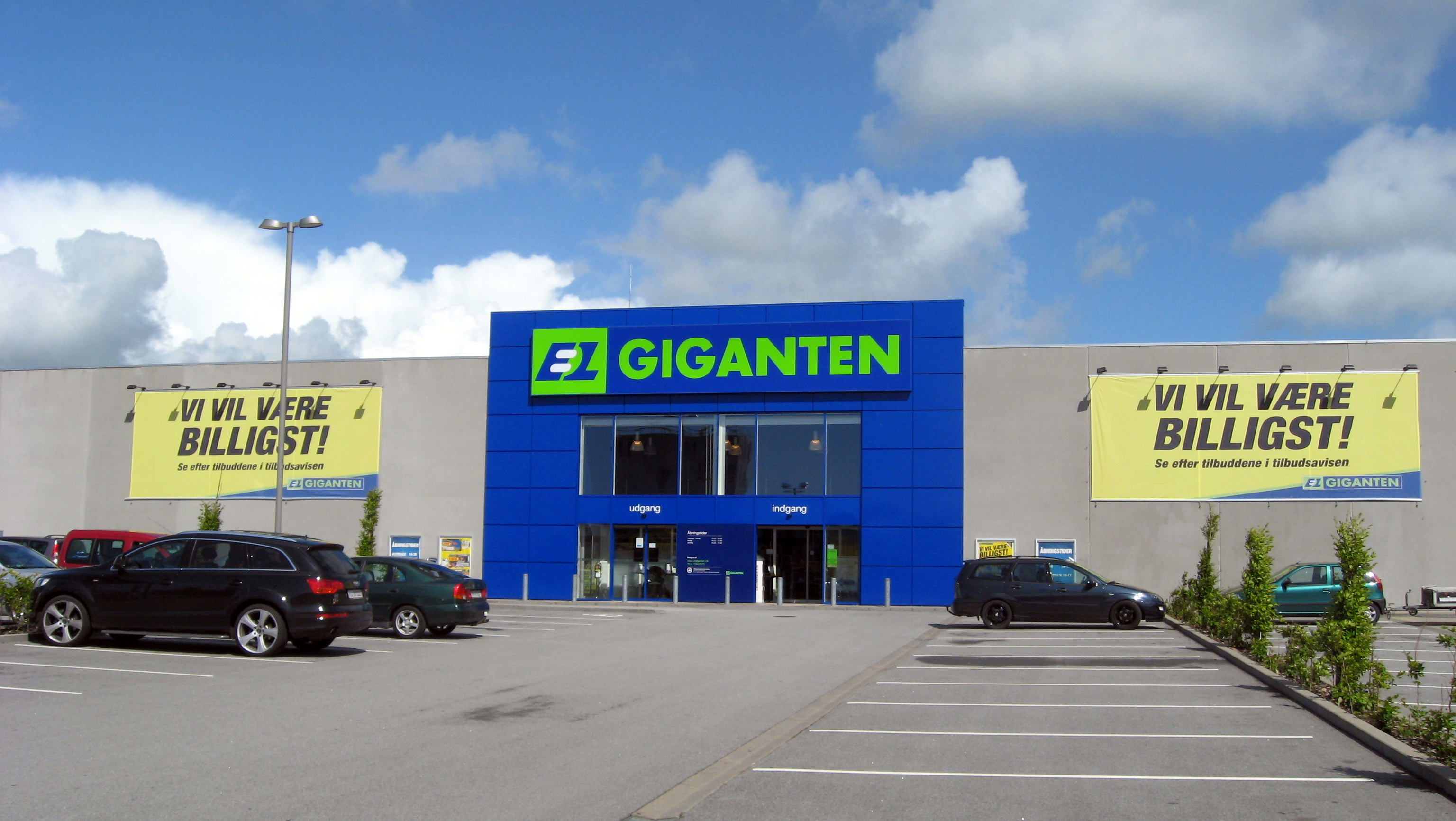 El-Giganten in Denmark